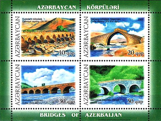 Stamp of Azerbaijan